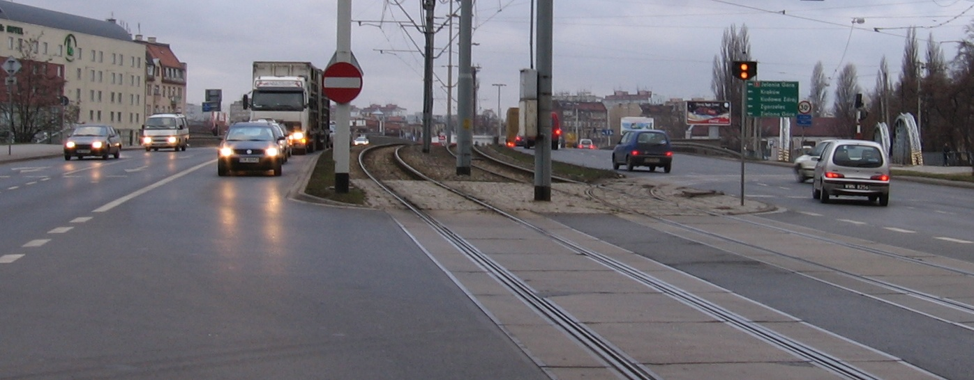 Wrocław, Poland Mosty Mieszczańskie - "Burgher's Bridges"; view from east; the old one (right) and double new one (left)